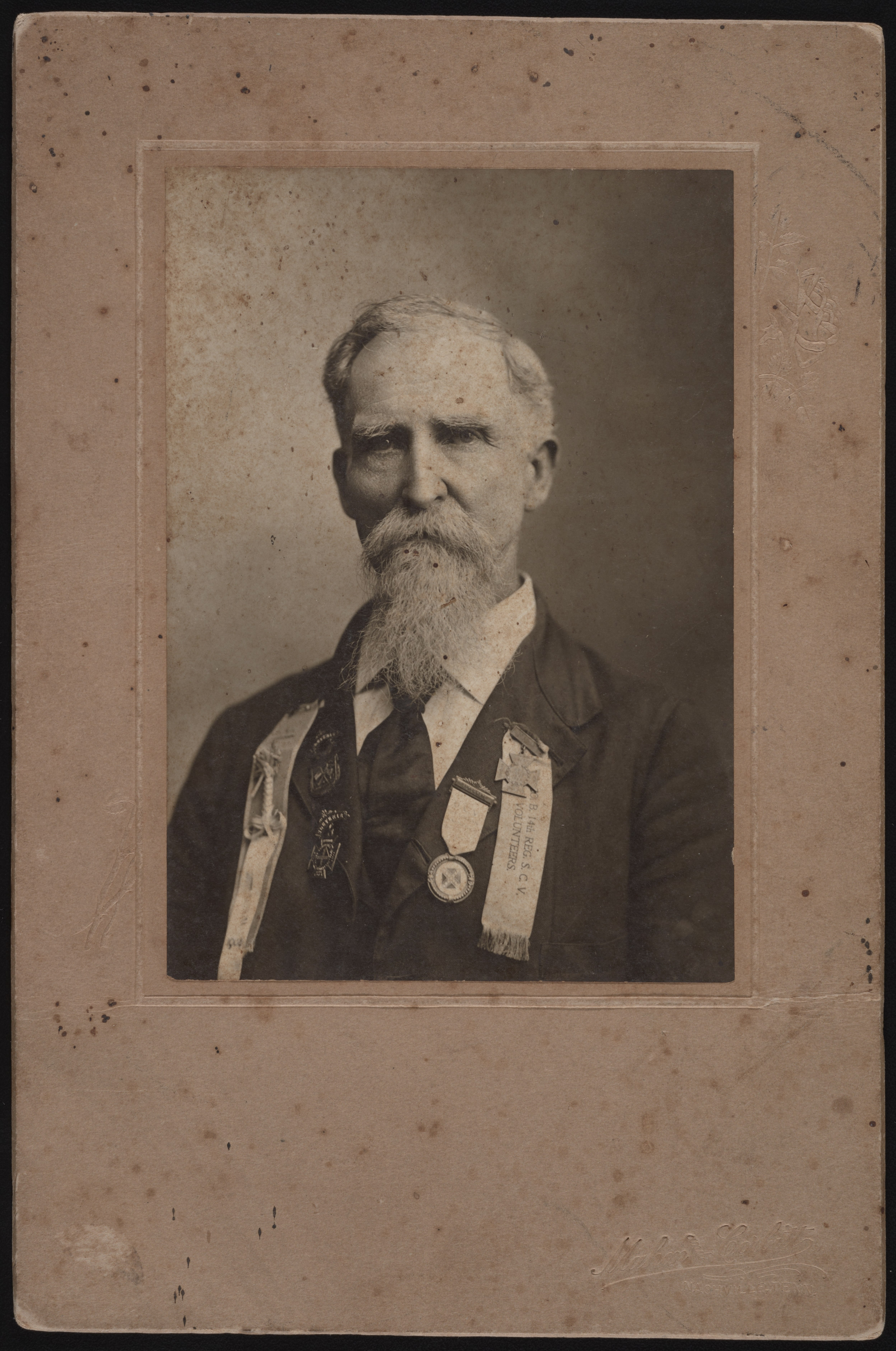 Title: Civil War veteran Masten Roe in U.C.V. uniform with medals] / Mahon & Corbitt, Nashville, Tenn Abstract/medium: 1 photograph : gelatin silver print on card mount ; sheet 14 x 10 cm, mount 23 x 15 cm.